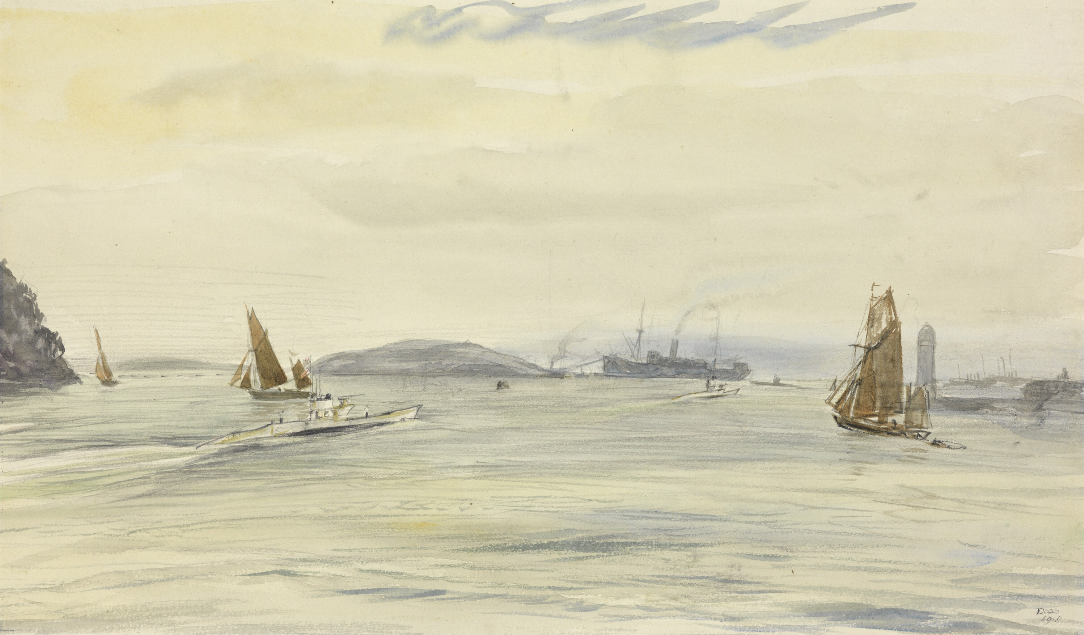 Hm Submarines L6 and L8 making Plymouth Sound image: a seascape with two submarines moving on the surface into a harbour. Small sailing boats cross the path of the submarines, while behind is the silhouette of a larger ship.